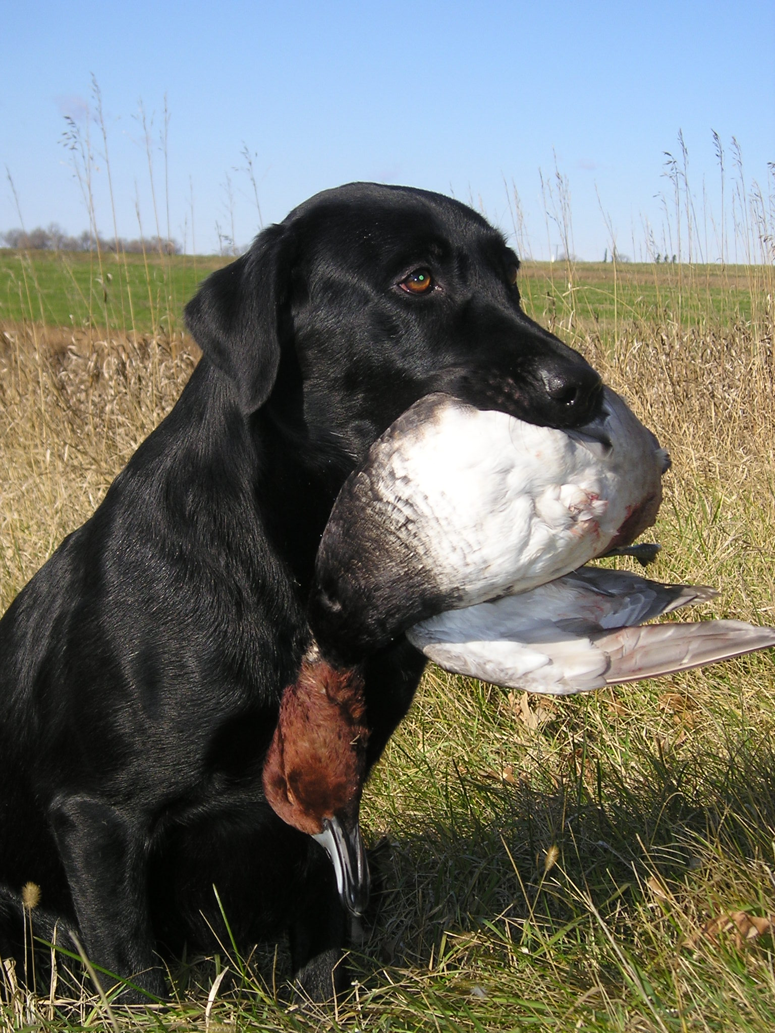 Dealer holding a Redhead.